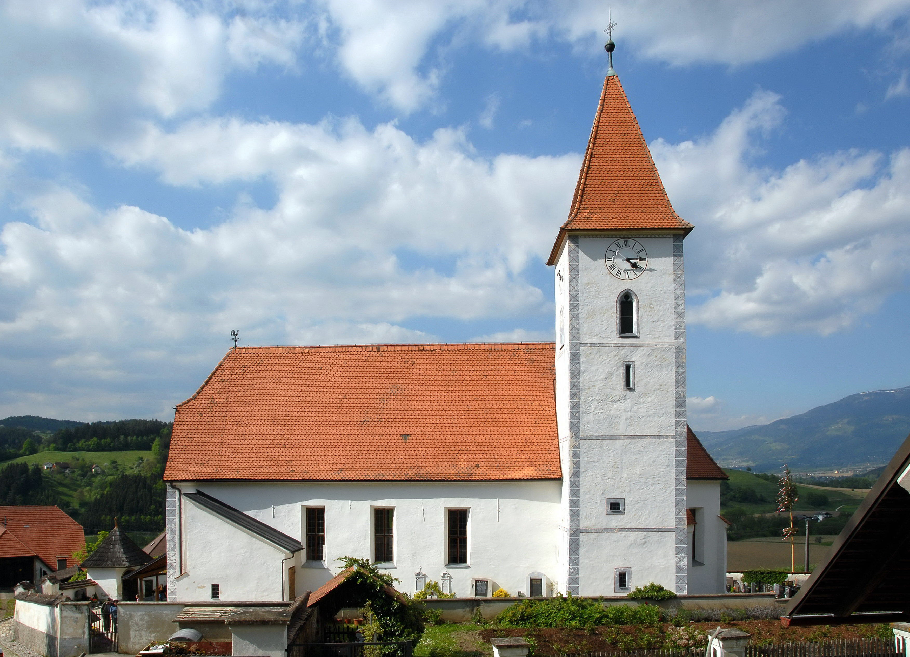 Parish church Saint Martin in the valley Granitz, community Saint Paul in the Lavanttal, district Wolfsberg, Carinthia, Austria